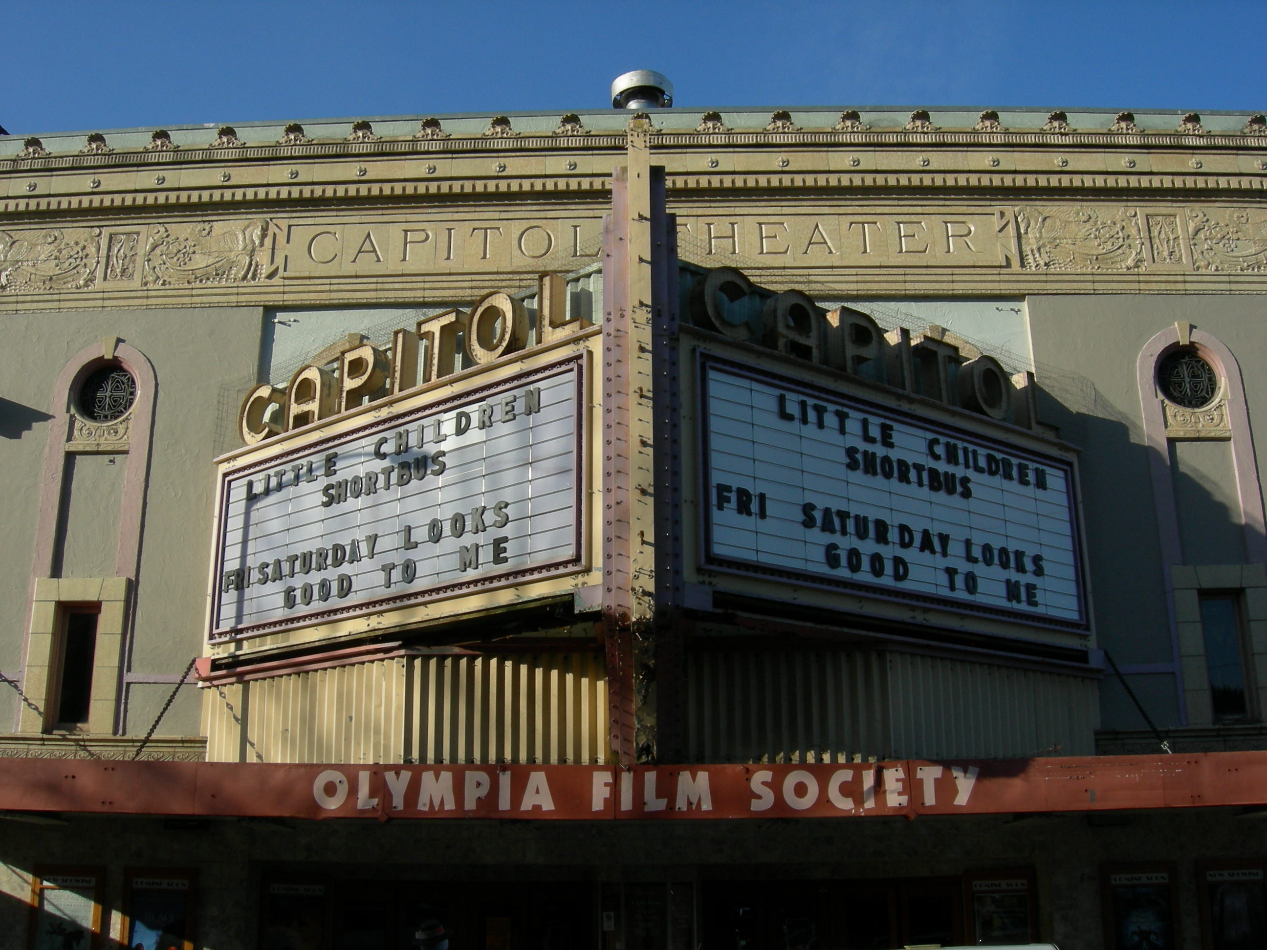 Capitol Theater, headquarters of the Olympia Film Society. Downtown Olympia, Washington.